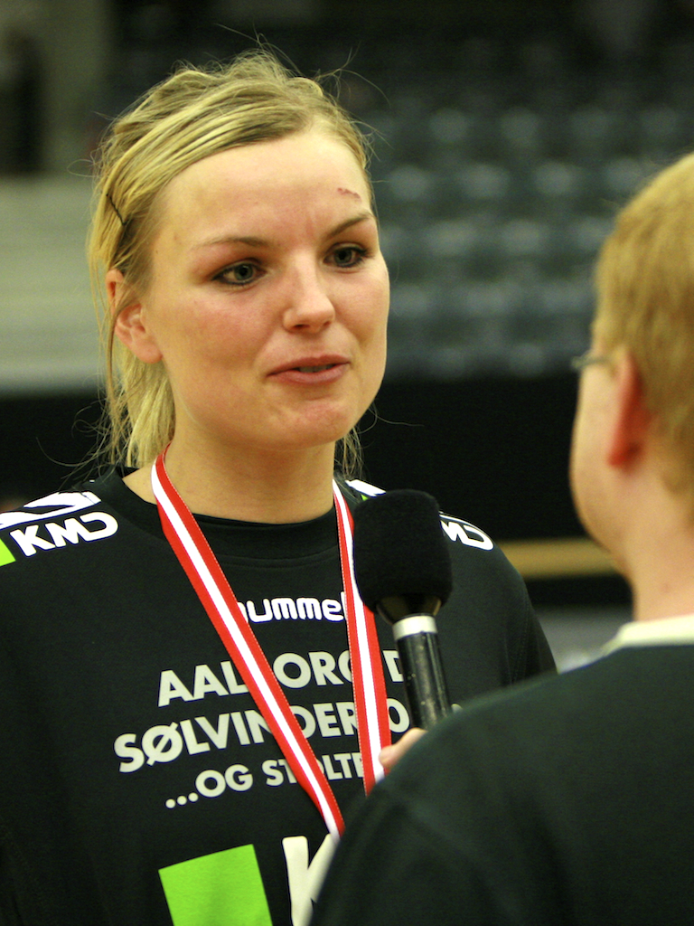 Pernille Larsen from Aalborg DH.